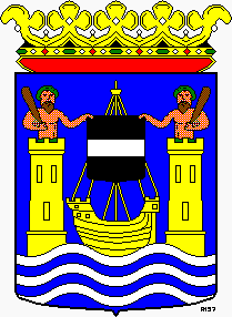 Coat of arms of Veere